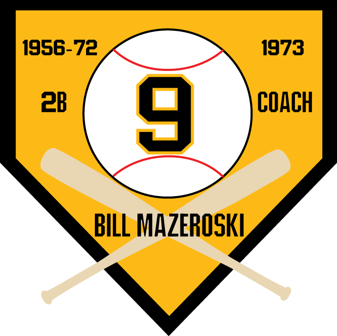 Retired Jersey #16